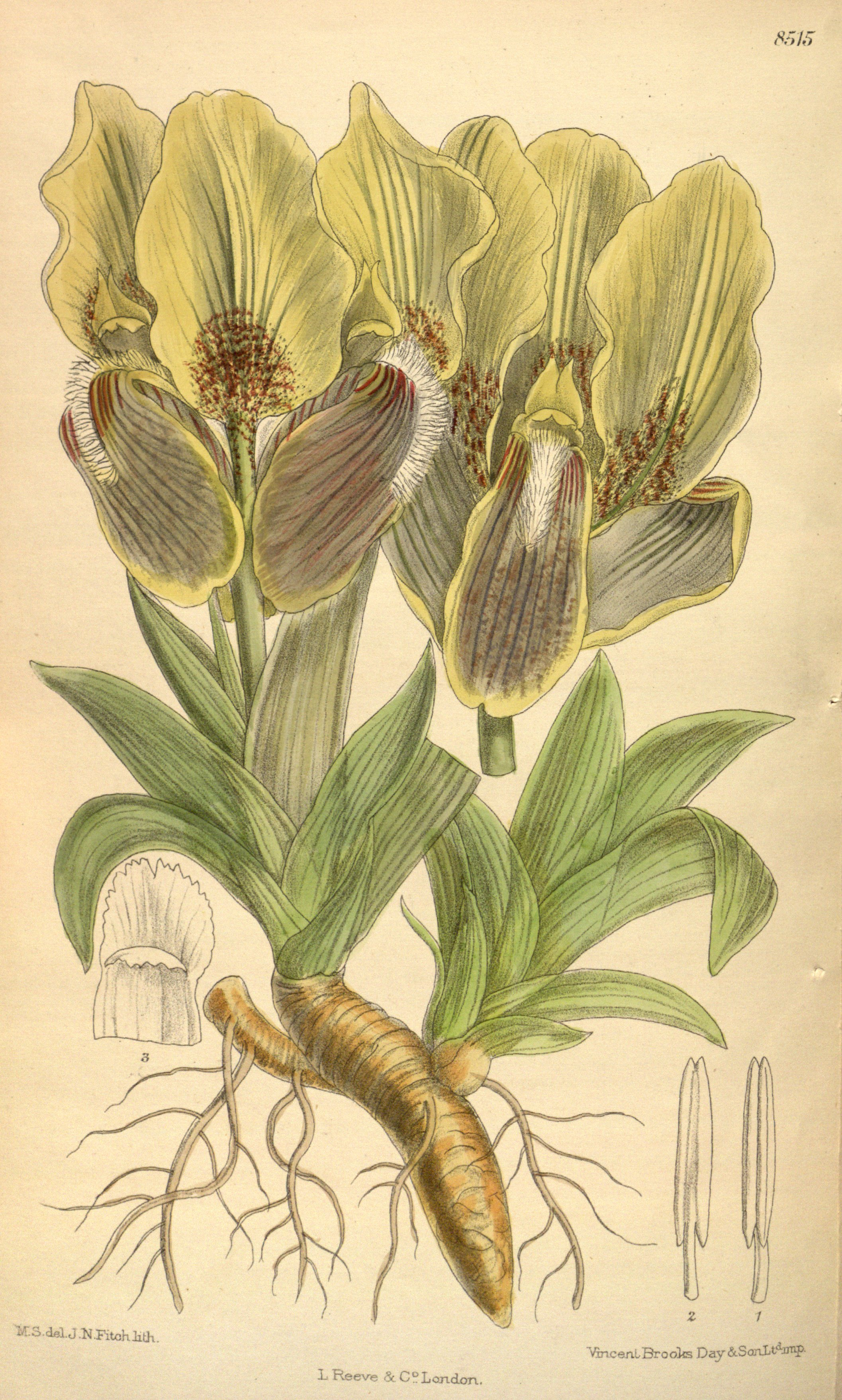 Iris mellita (= Iris suaveolens), Iridaceae